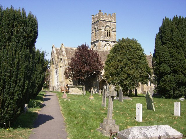 SS Mary and Ethelbert parish church, Luckington, Wiltshire, seen from the southwest